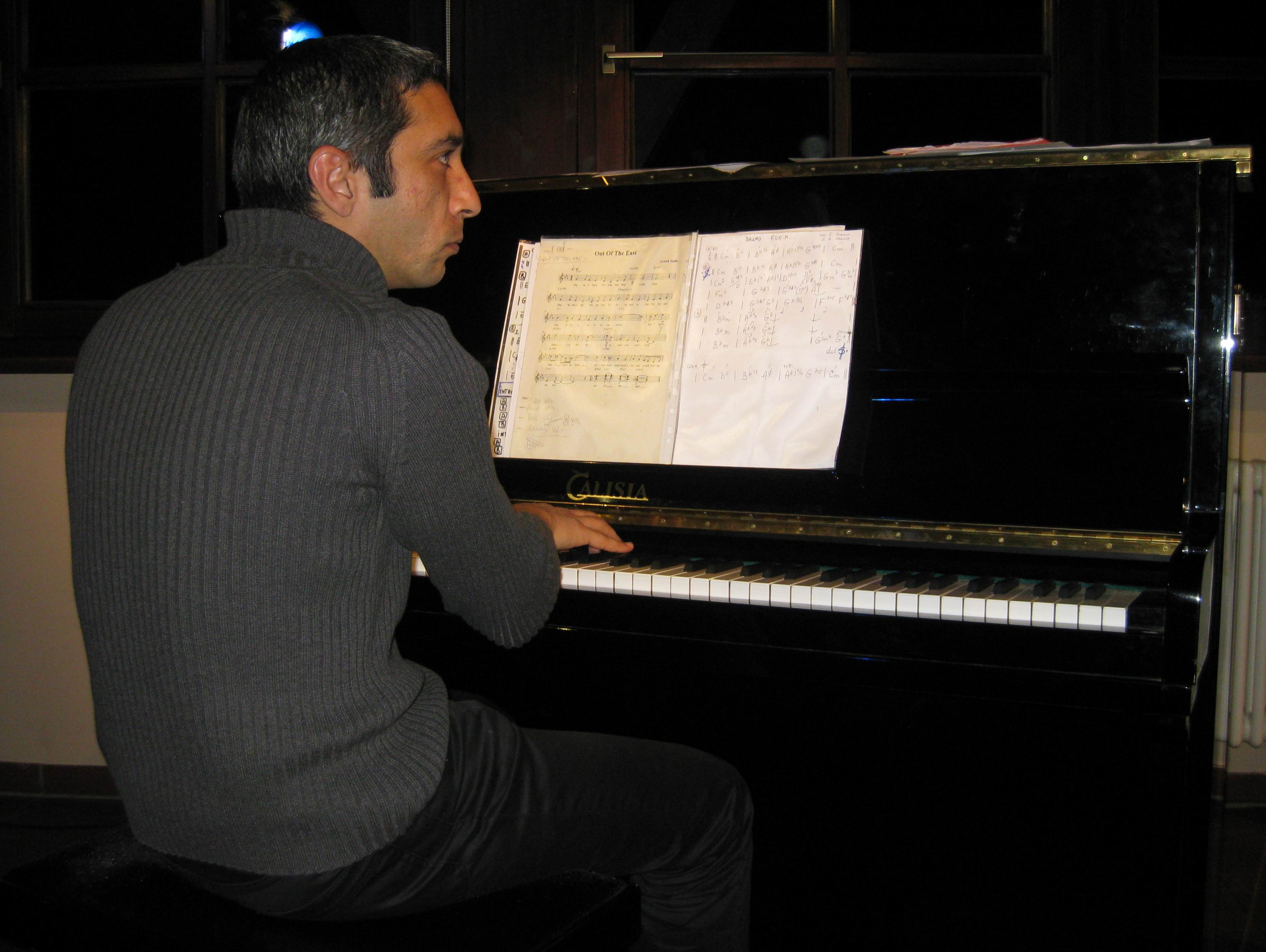 Konstantin Kostov in Nuremberg, 2009-11-29